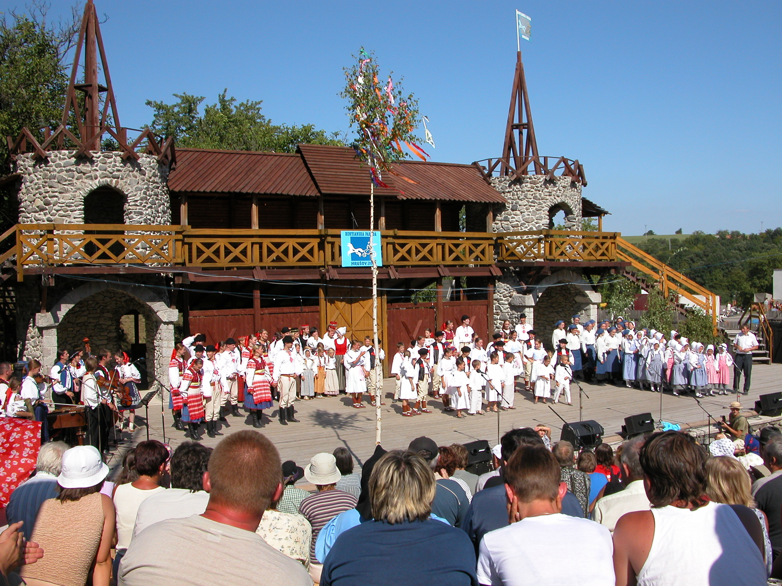 Amphitheatre. Hontianska paráda - folklore festival in Slovakia Autor: Tomko